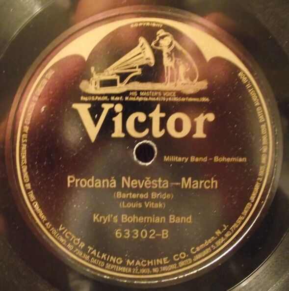 picture of Victor 78rpm label by Kryl's Bohemian Band, recorded in 1912